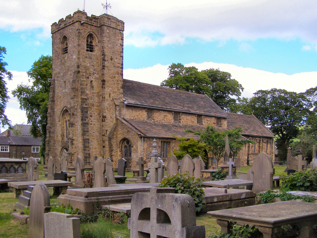 The Parish Church of St Mary and All Saints, Whalley, near to Billington, Lancashire, Great Britain.